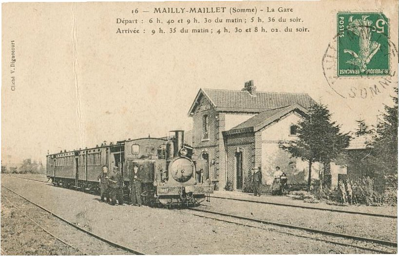 Mailly-Maillet Rail Station